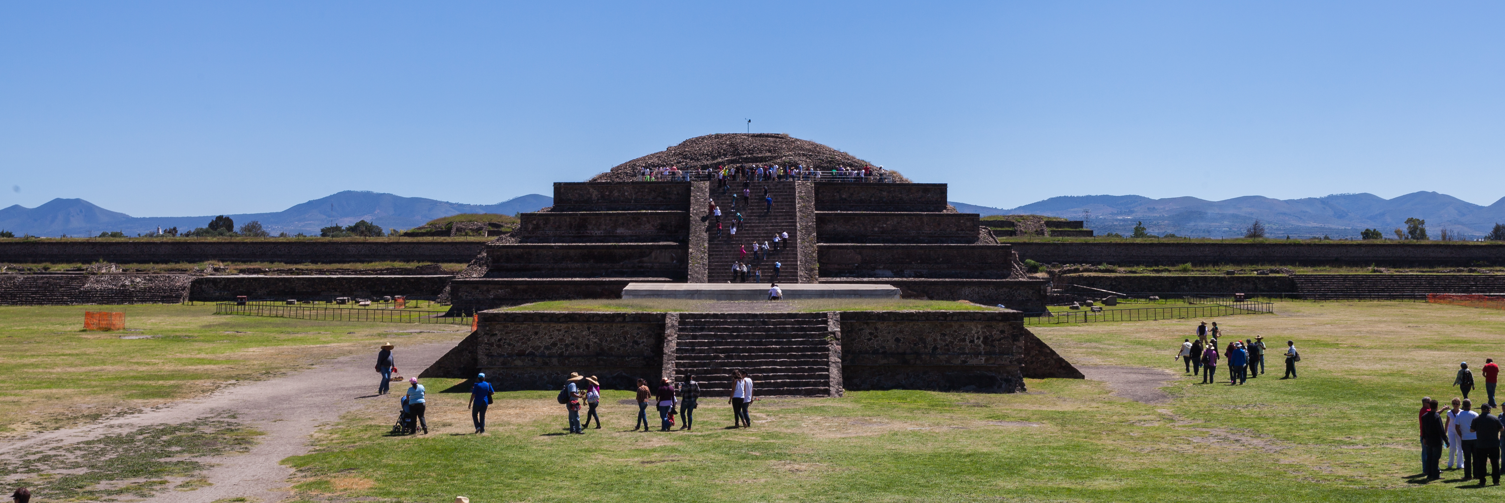 La Ciudadela, Teotihuacán, Mexico